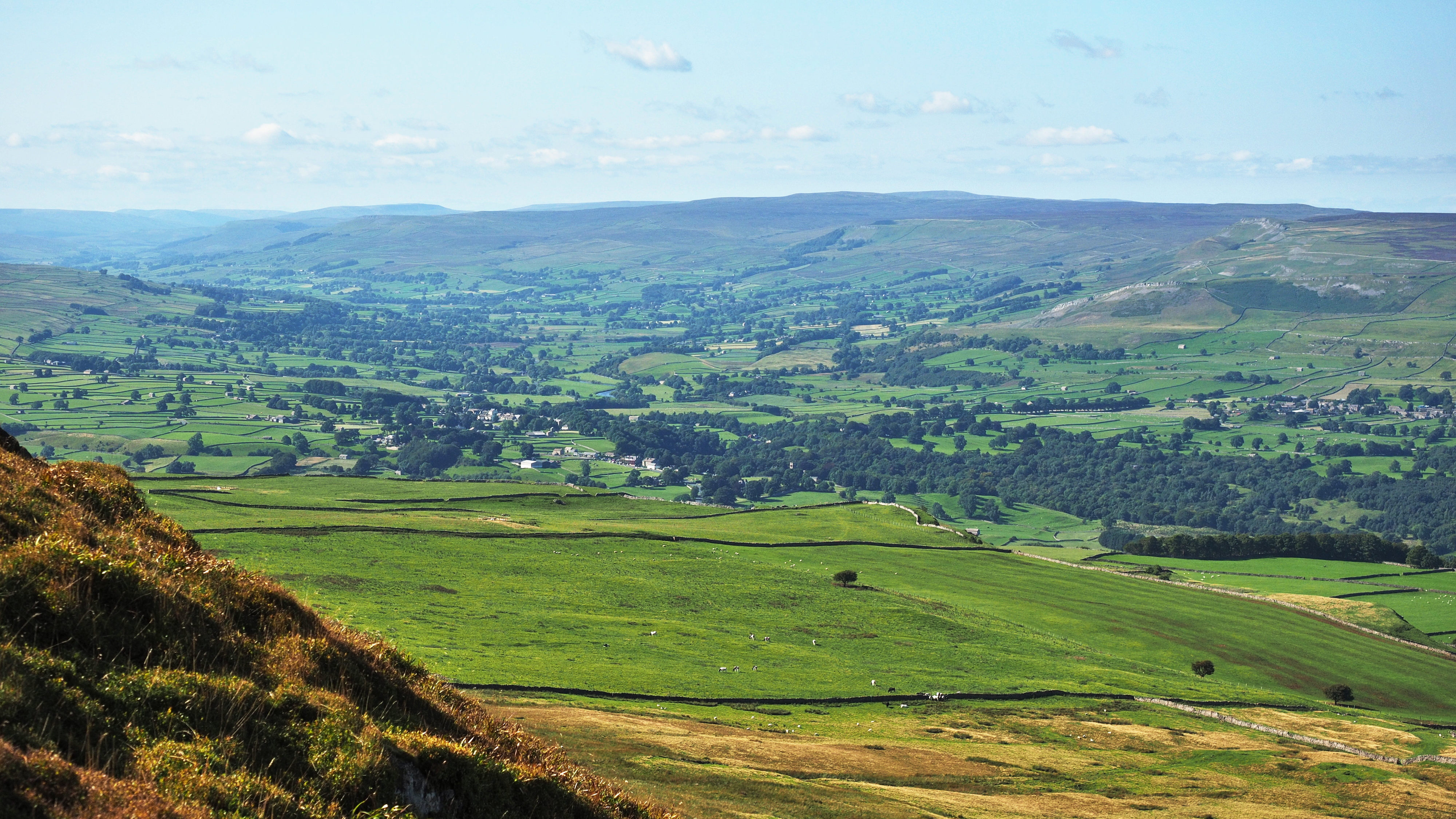 View from Penhill to the west into Wensleydale